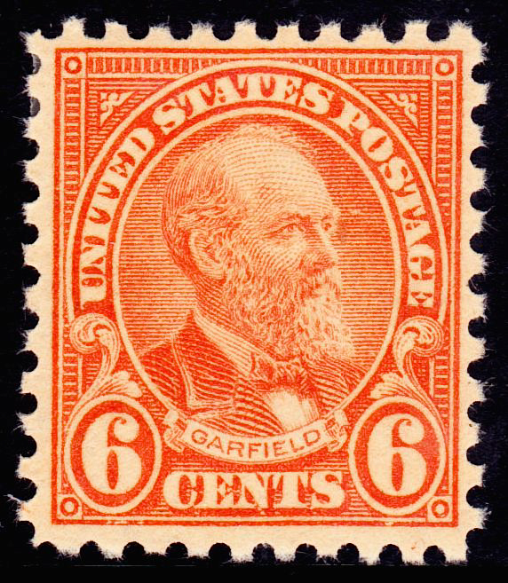 James_Garfield_1922_Issue-6c.jpg